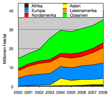 Development of organically managed land, by geographical region 2000-2007 Data